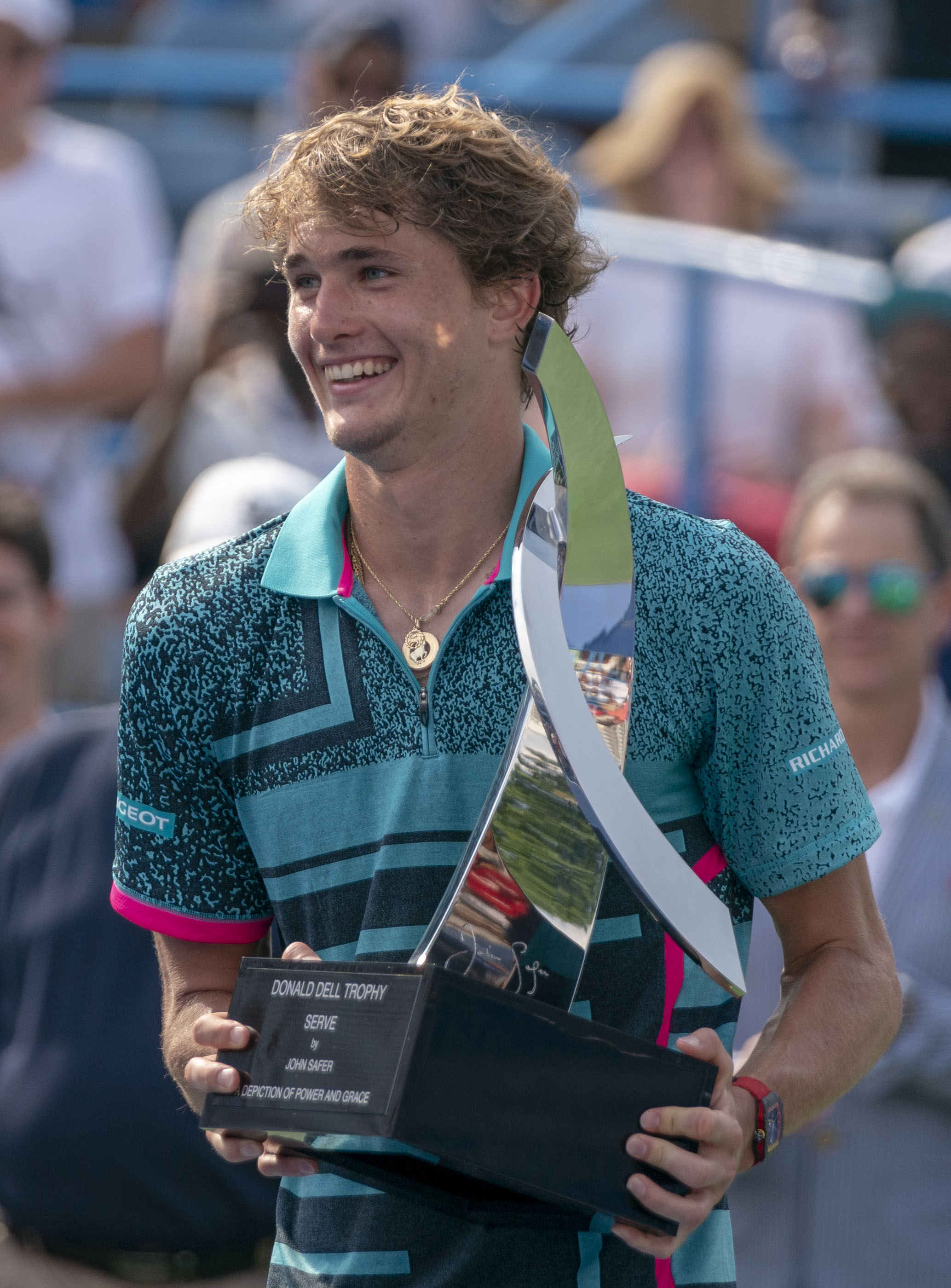 Alexander Zverev holds the men's singles trophy at the Citi Open tournament at Rock Creek Park Tennis Center on August 5, 2018 in Washington D.C..